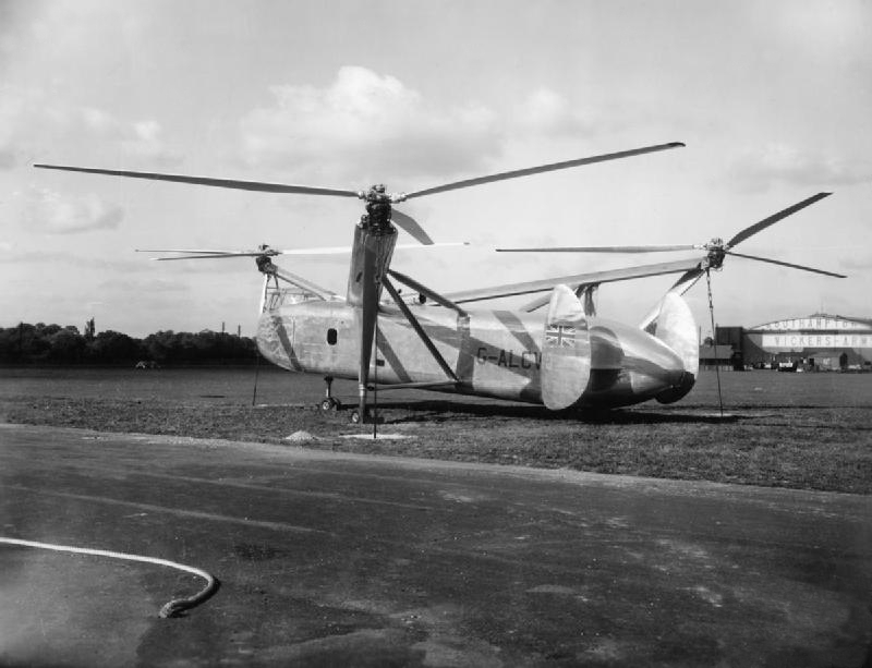 Cierva W.11 Air Horse helicopter at Vickers-Armstrongs works, Southampton.